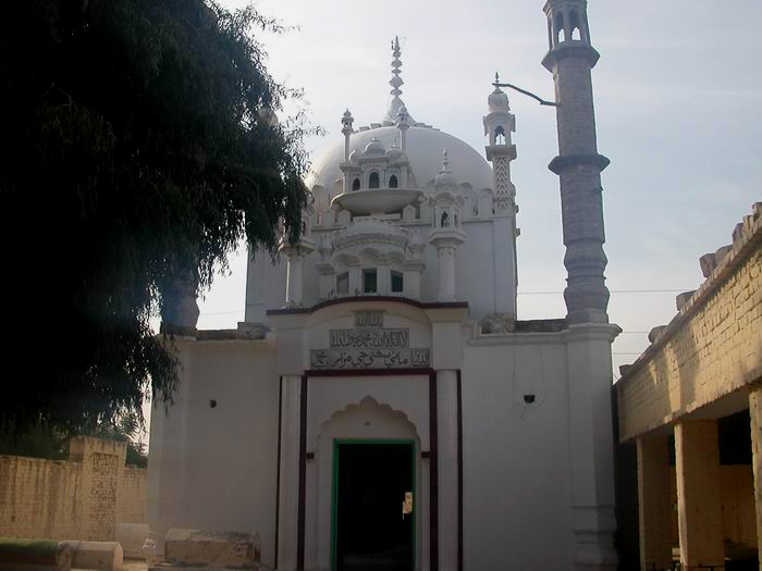 Tomb Of Sohni in Shahdadpur, Sindh, Pakistan 03336985564